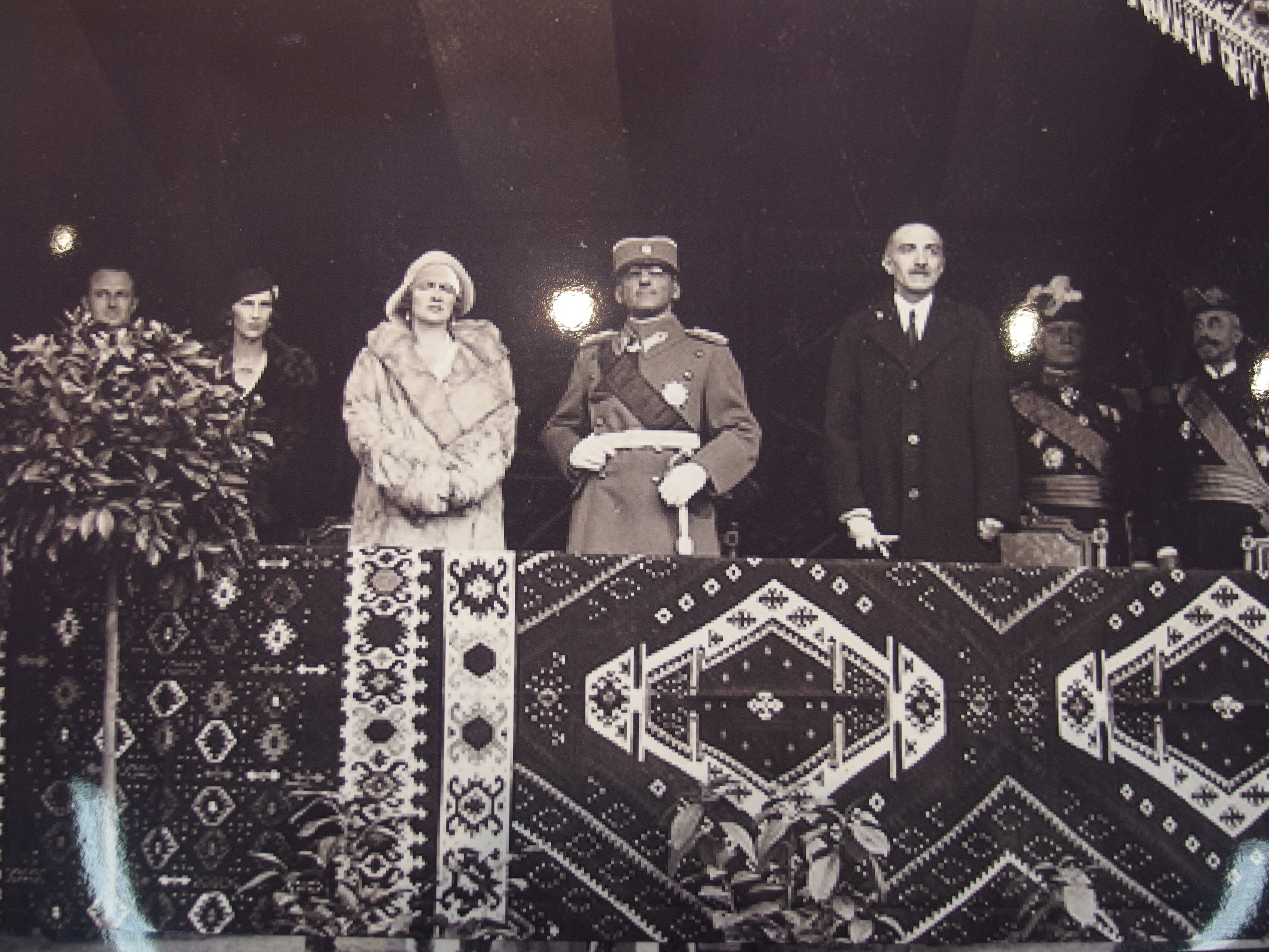 Pirot kilim at the royal balcony on the occasion of the festivities of November 11th 1930